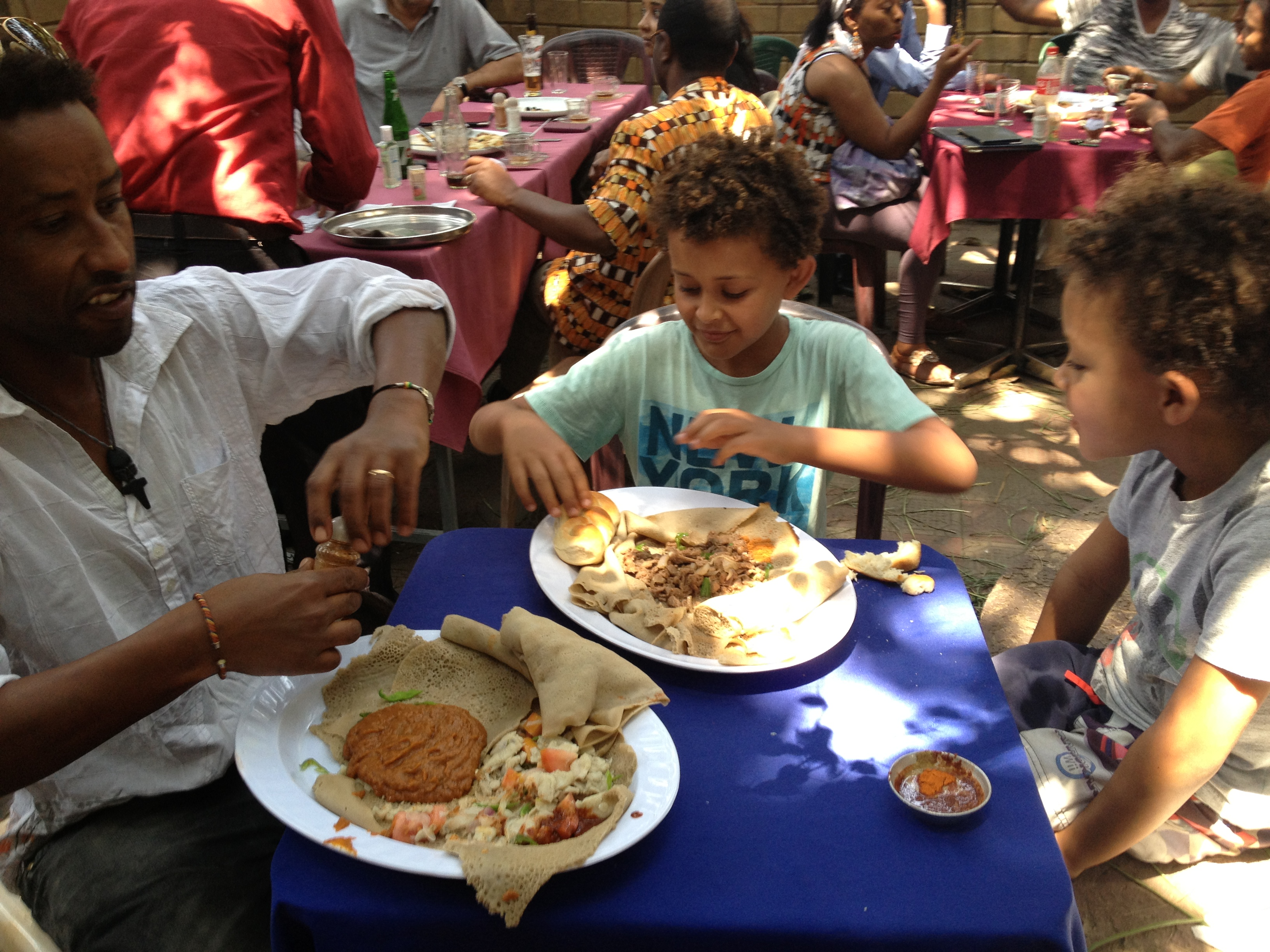 Sharing food from a communal plate is the traditional way of eating in Ethiopia. Shiro (a mix of chick peas in a mild, tomato paste) and Tibs (barbequed lamb, beef or goat) are served on a bed of freshly made enjera / injera (sour dough pancake made with the wonder grain tef!) This is an image of food from Ethiopia